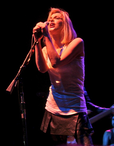 Photo of Courtney Love performing with band Hole at the Tarbernacle in Atlanta, Georgia, on June 30, 2010. Photo taken by Flickr user KatjusaC. Has been cropped from original image to provide a more focused view of the subject.